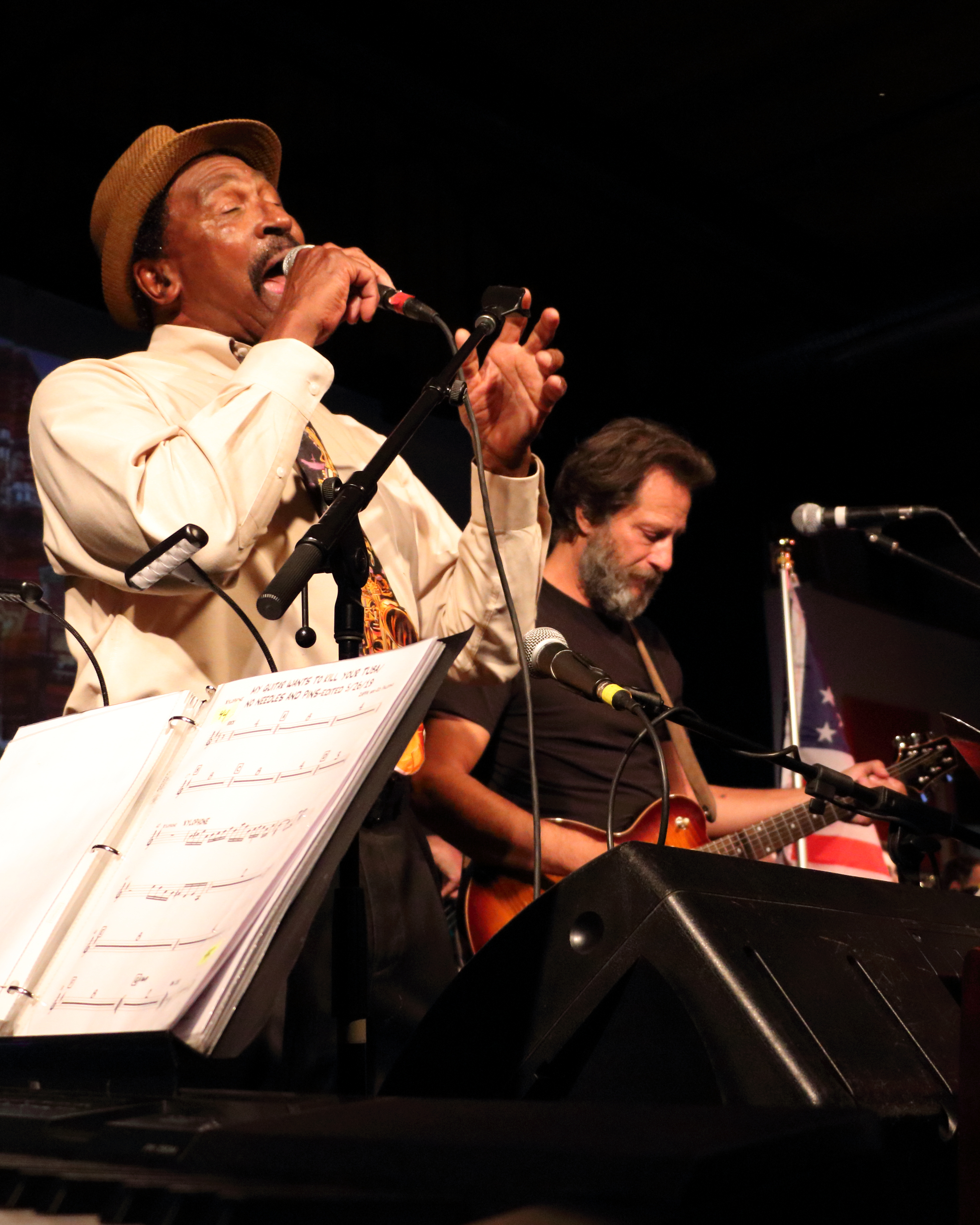 Live at The Falcon 2019